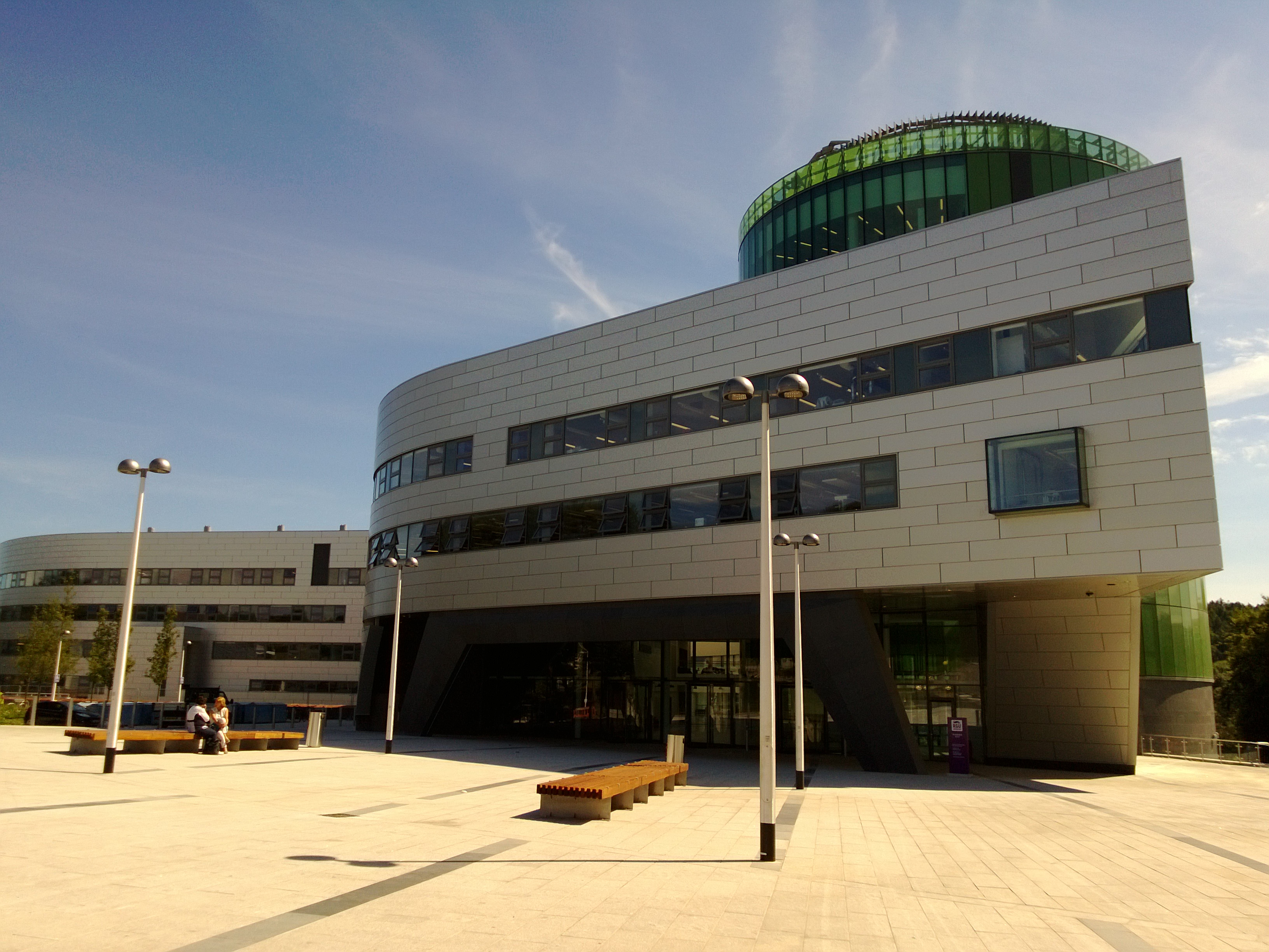 View of Riverside East building at The Robert Gordon University, Aberdeen, UK, at the university's Garthdee campus. Main entrance shown, opening onto the main campus plaza. Photo taken in August 2013, the same year the building was completed.